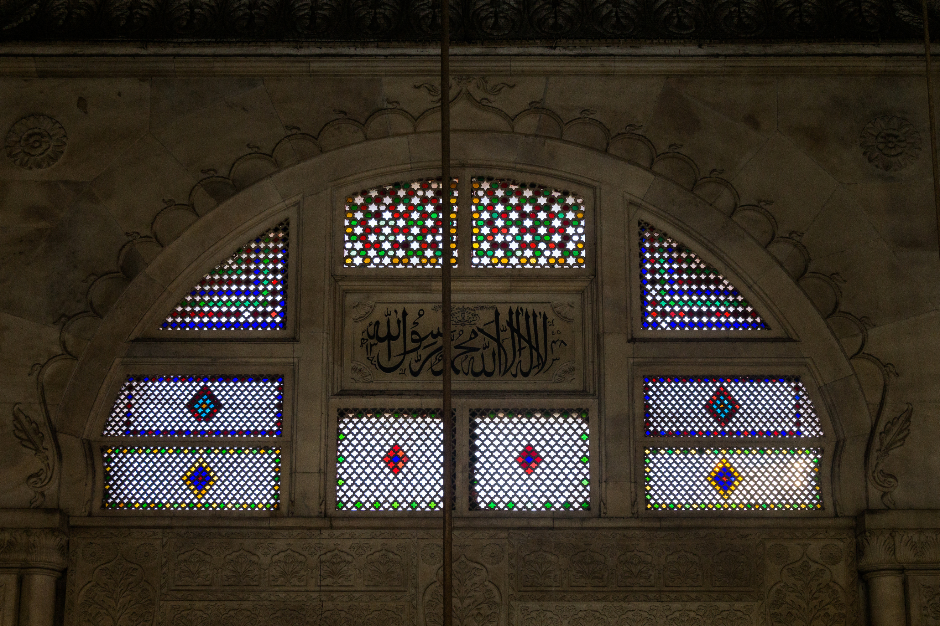 Part of the Mihrab at Nakhoda Masjid, Calcutta's biggest mosque.